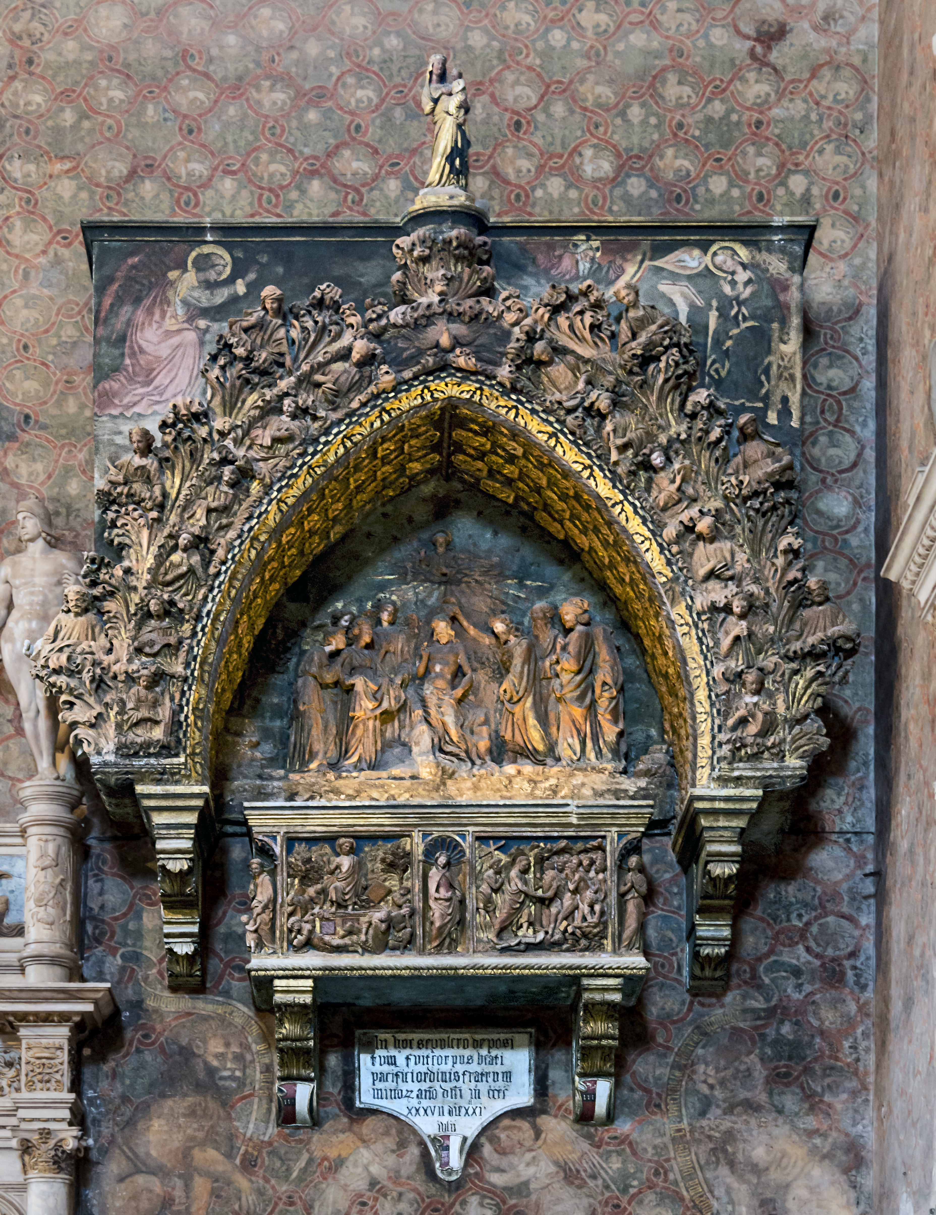 Santa Maria Gloriosa dei Frari. Monument to Blessed Pacifico Dei Frari. Monument of Blessed Pacifico Dei Frari. The only monumental Venetian terracotta is painted and gilded. Originally erected for Bon Scipio whose arms remained represented. The paintings in the upper part representing an Annunciation attributed to either Giovani di Francia or Zanino di Pietro.